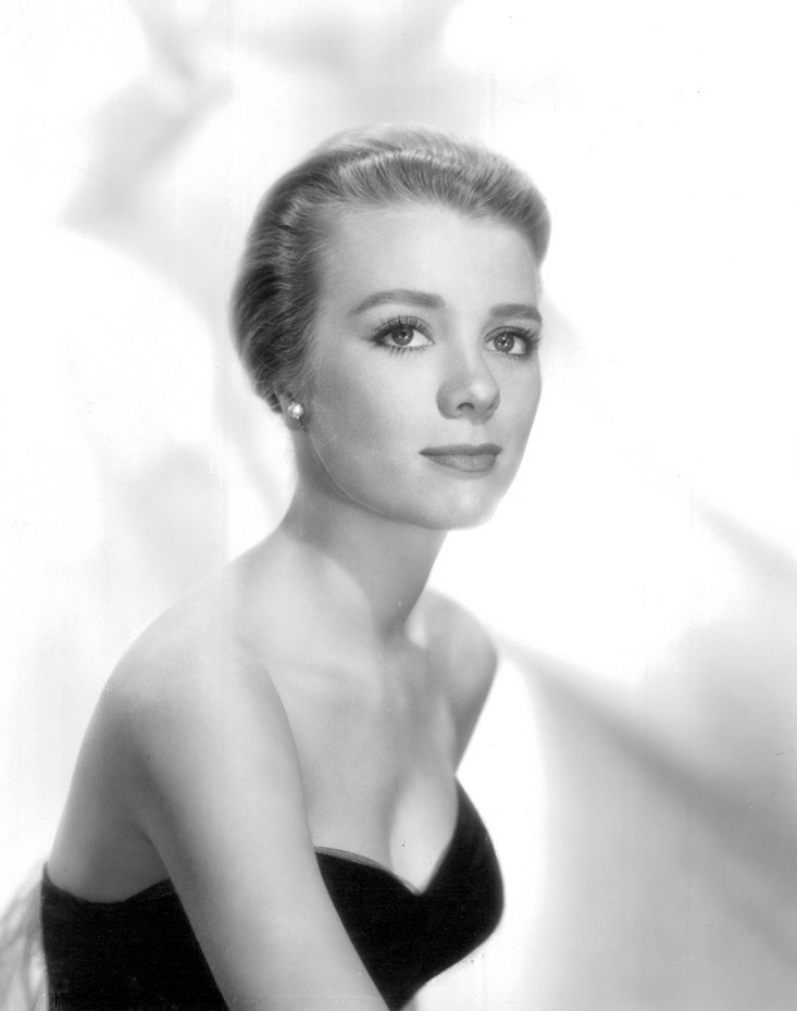 Photo of Inger Stevens.